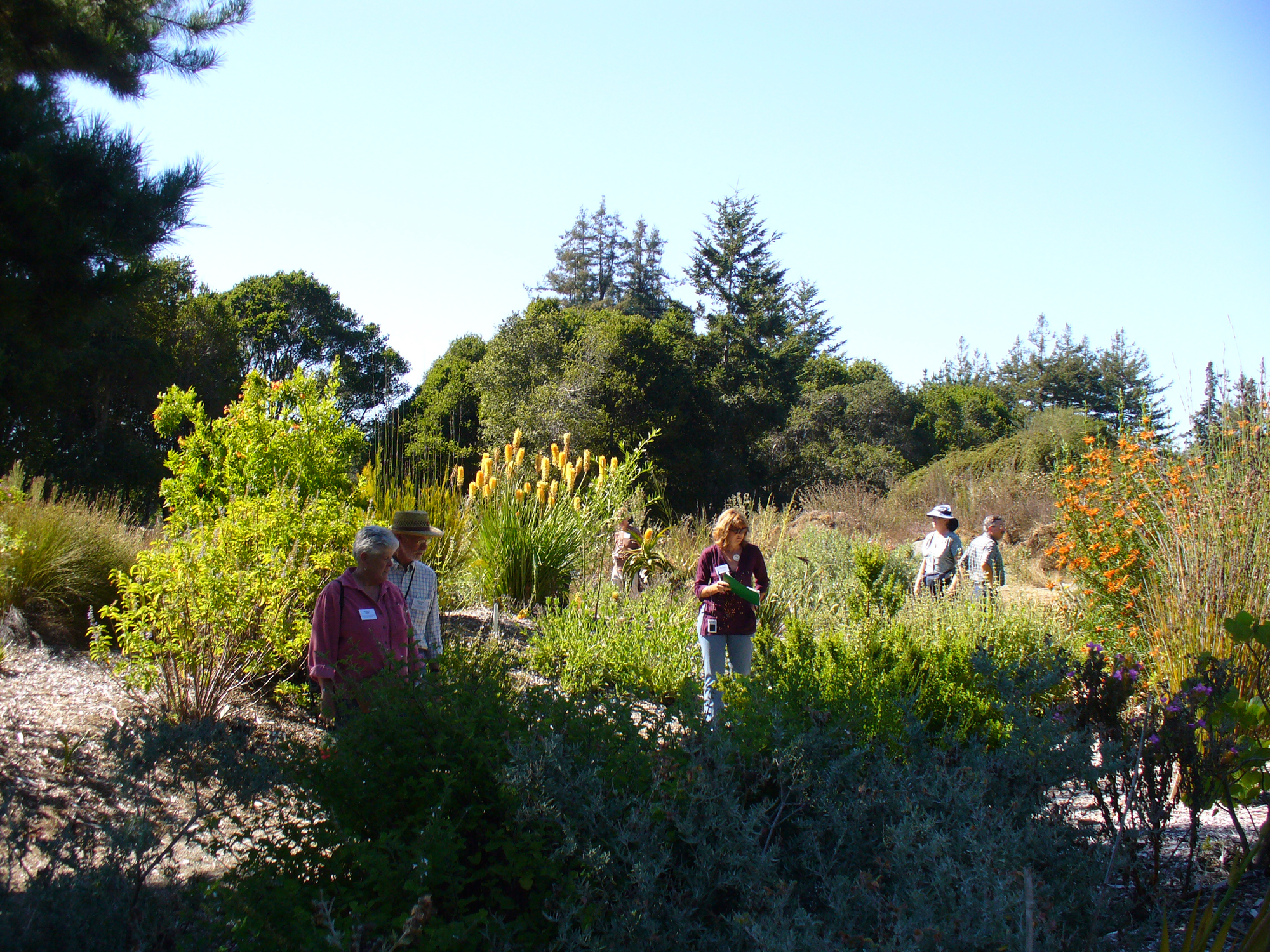 Salvia Summit, Cabrillo College, Aptos, CA, USA. 1, 2 August 2008.